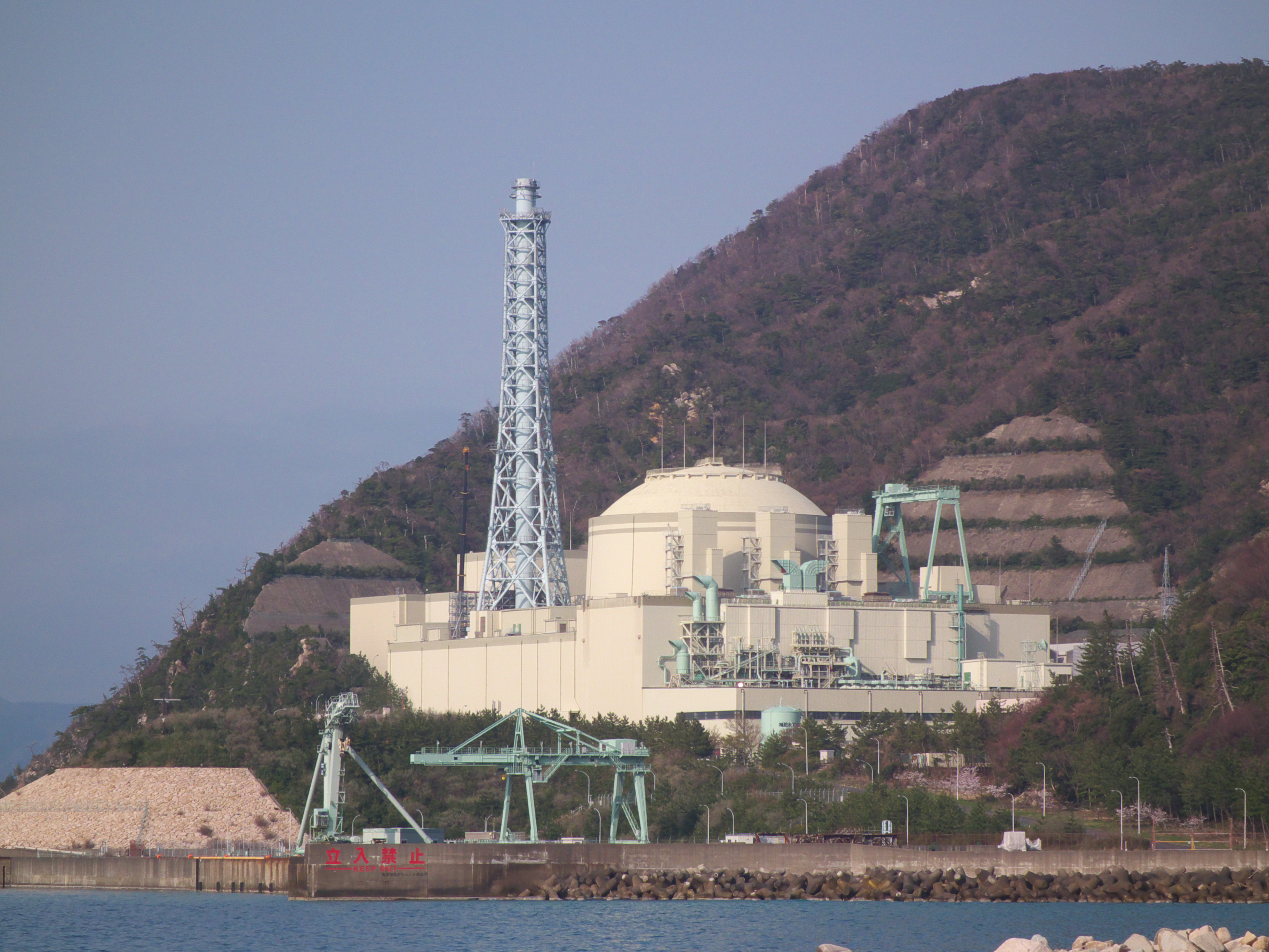 Fast Breeder Reactor Monju in Japan Fukui